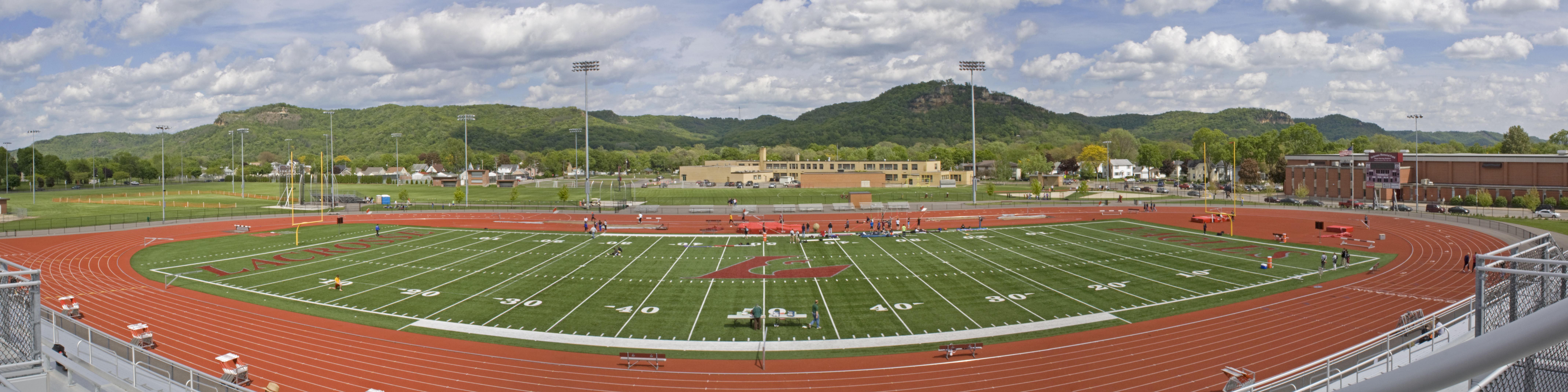 UWL football field and track